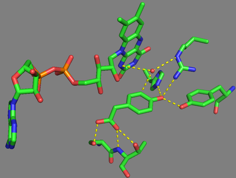 Active site of Thermus thermophilus hpaB, generated using RCSB structure 2YYJ.